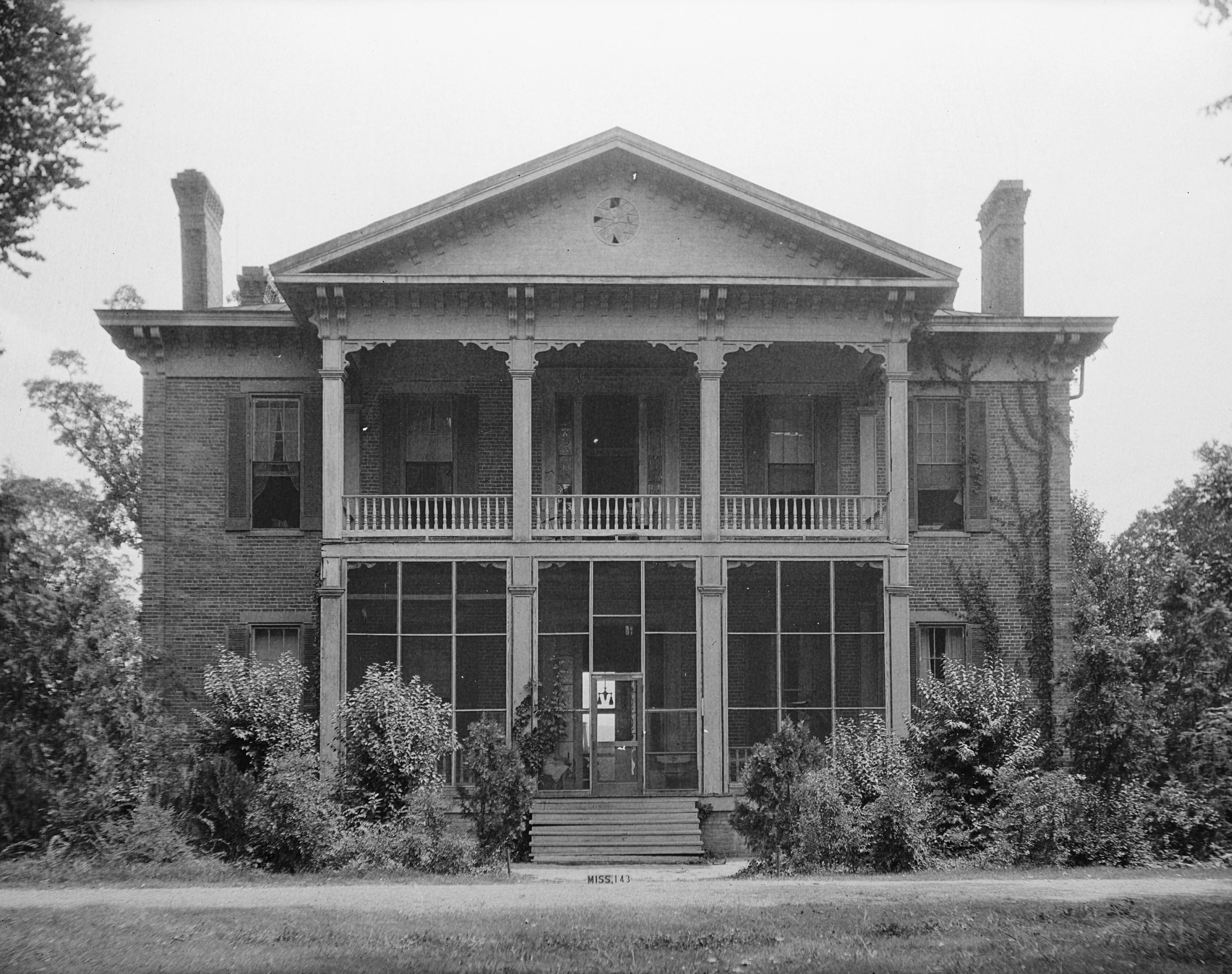 Front of Belmont, a historic plantation house located around the junction of Mississippi Highways 1 and 438 near Wayside in Washington County, Mississippi, United States. Built in 1857, it is listed on the National Register of Historic Places.